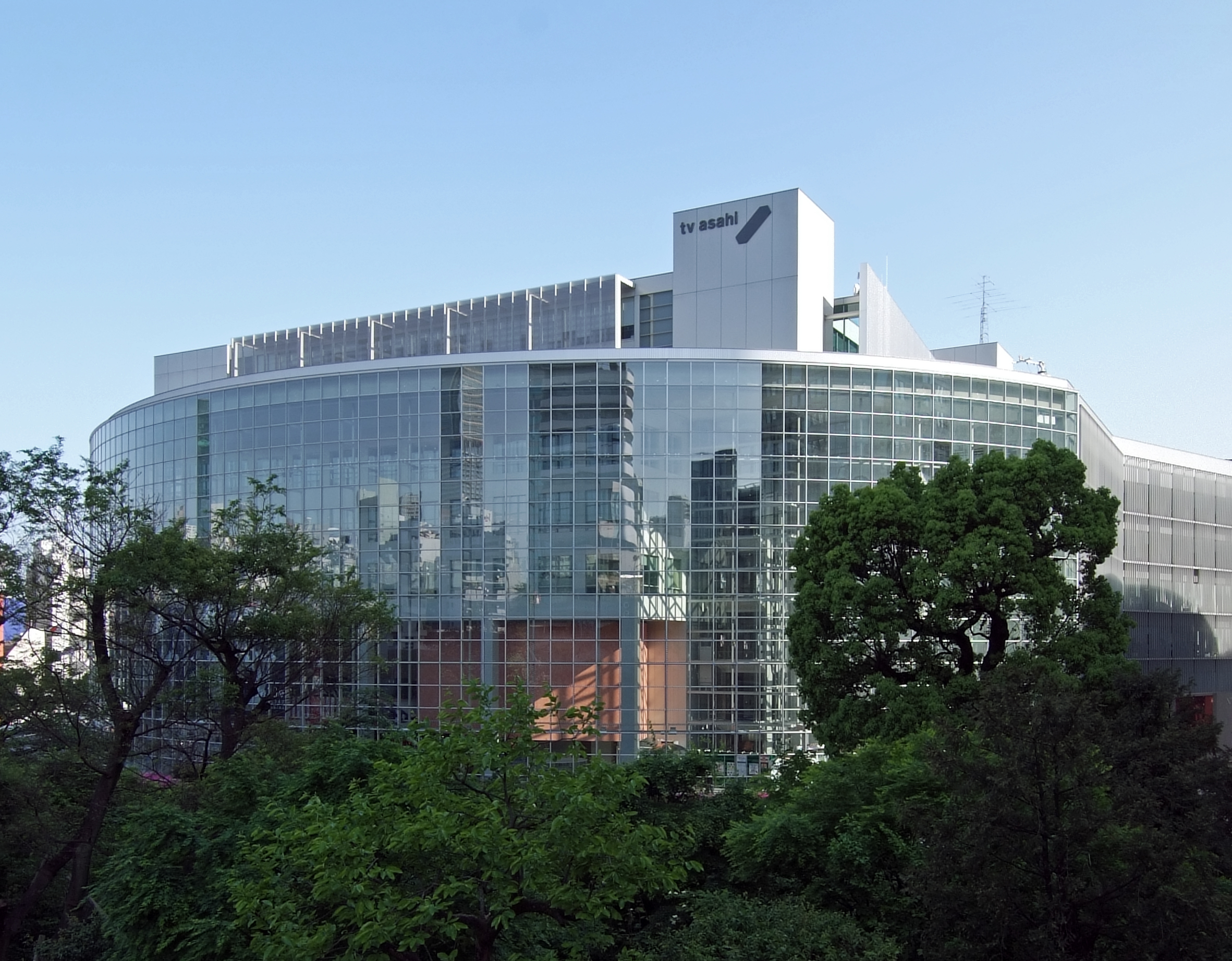 The headquarters of TV Asahi, Minato-ku Tokyo Japan, designed by Fumihiko Maki in 2003.